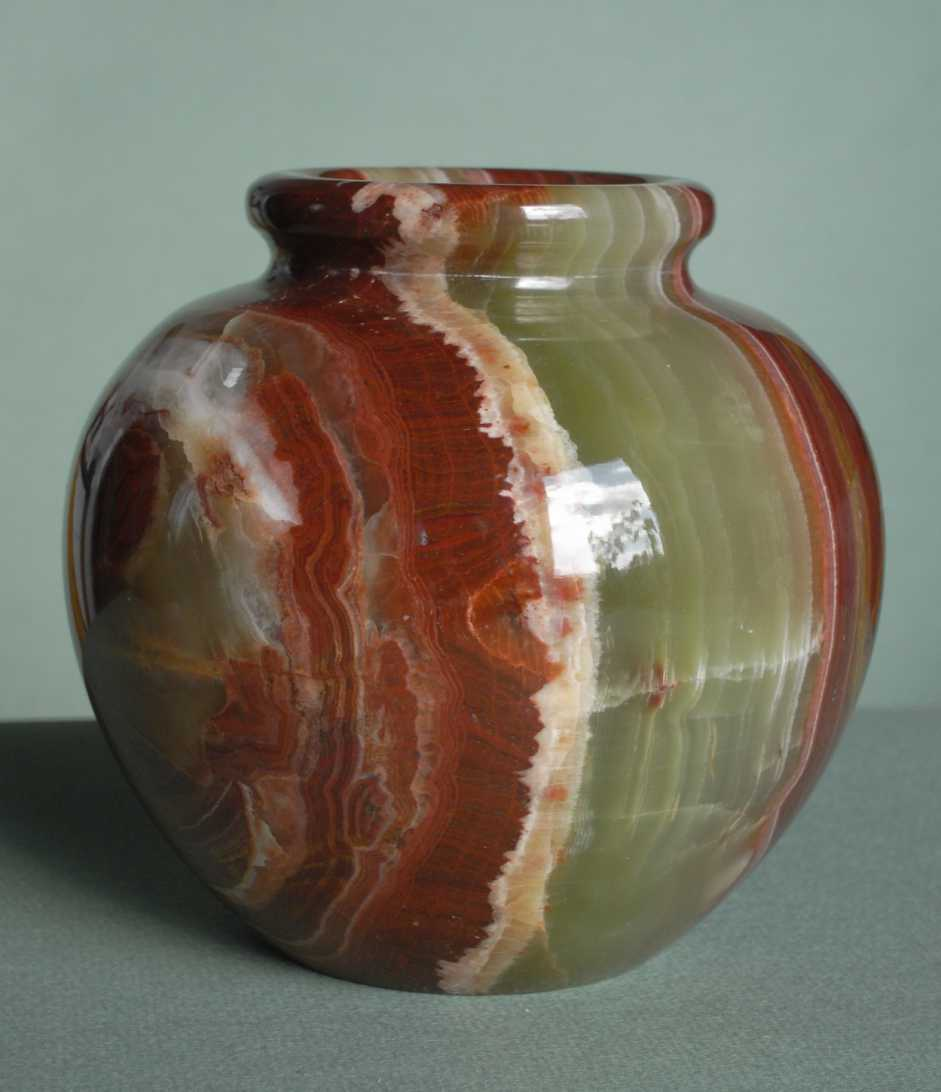 vase onyxmarble, Pakistan